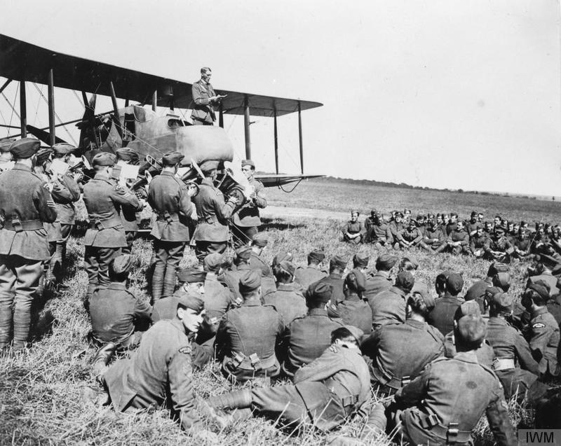 The Royal Flying Corps on the Western Front, 1914-1918 A chaplain conducting church service from the nacelle of a Royal Aircraft Factory F.E.2b night bomber at No. 2 Aeroplane Supply Depot, 1 September 1918. Note a military band on left in RFC uniforms playing.